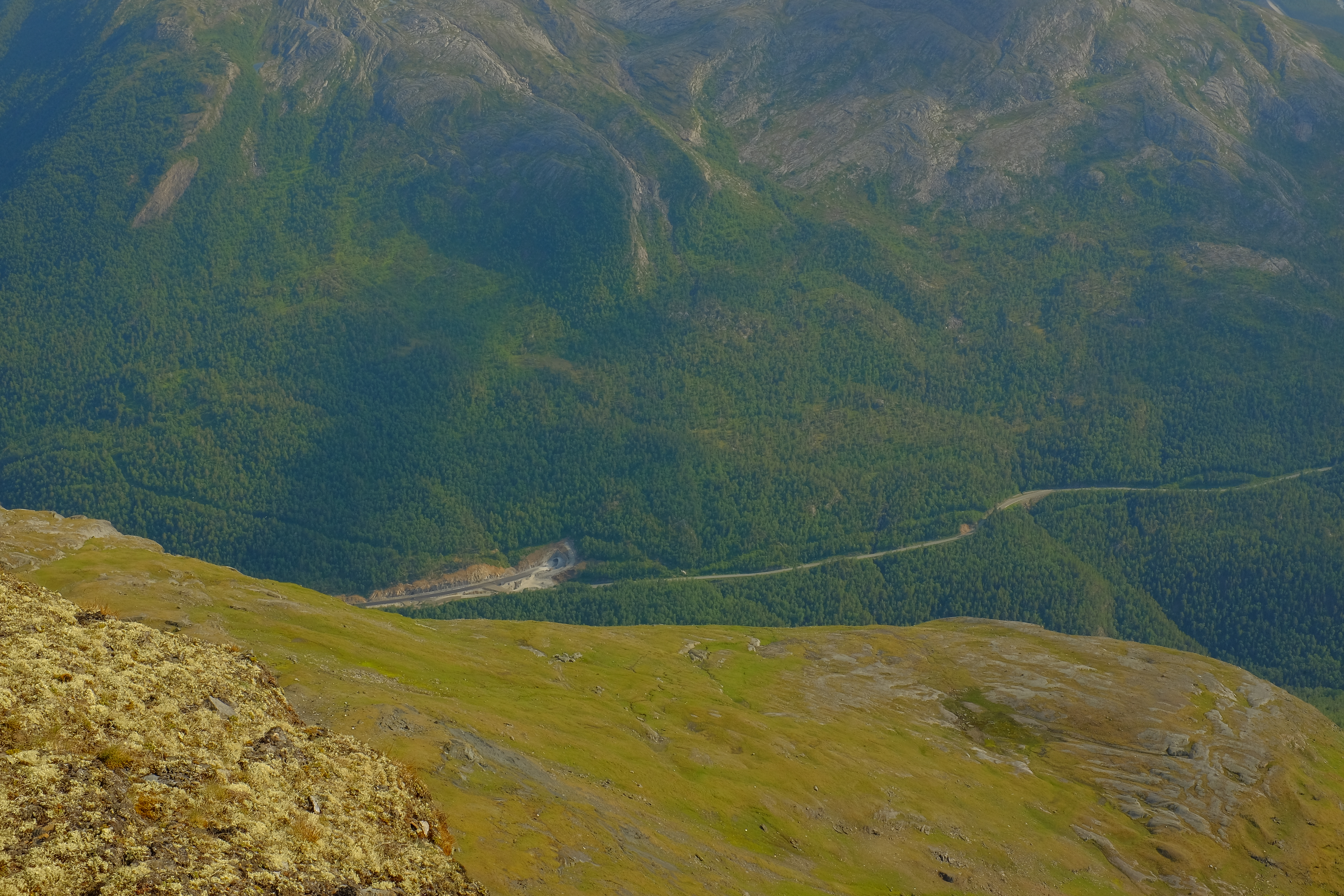 Tjernfjellet tunnel is a road tunnel that is being built on Rv 77 between Storjord in Saltdal municipality in Nordland and the national border with Sweden. The tunnel work was started in September 2016, the breakthrough came February 2018, and the tunnel will be completed in autumn 2019.